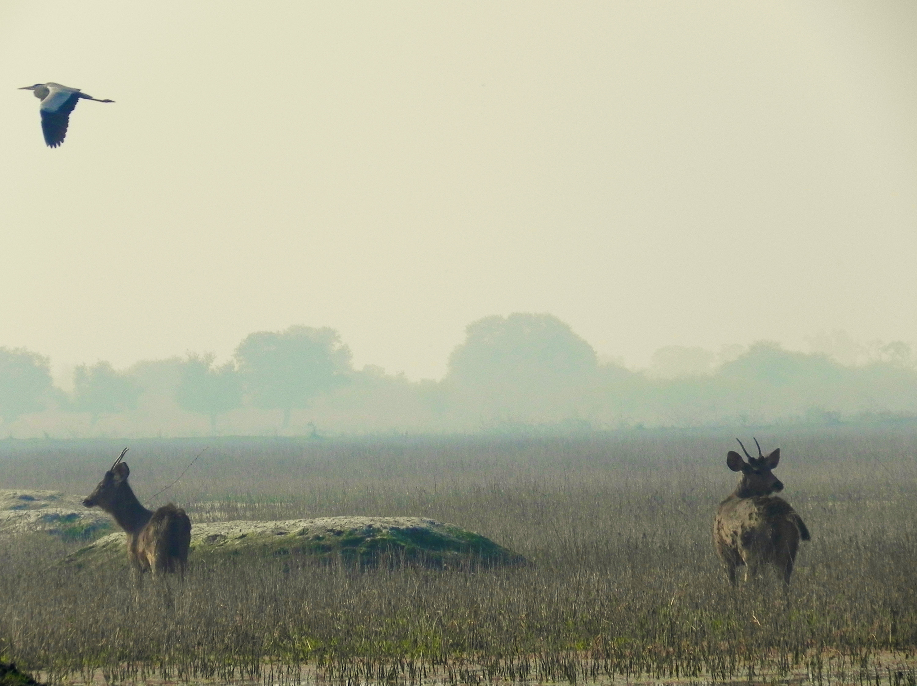 Keoladeo Ghana National Park is a is a mosaic of dry grasslands, woodlands, woodland swamps, and wetlands in Bharatpur Rajasthan. This national park is also a World Heritage Site under criteria x of the UNESCO Conventions. The sanctuary is home to over 350 species of native and migratory birds as well as many species of reptiles and mammals.